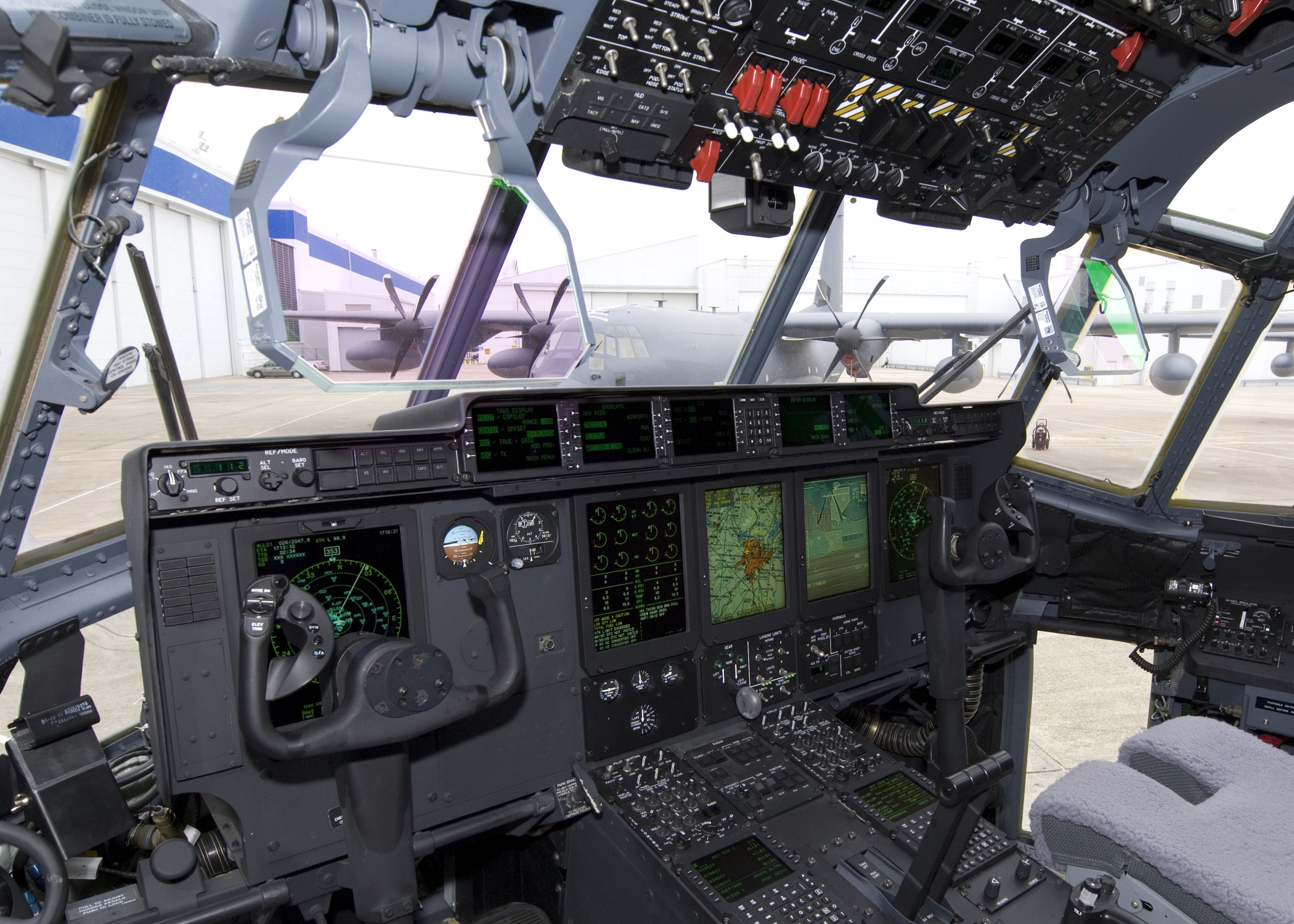 A cockpit view of the MC-130J displays the state-of-the-art technology utilized by Air Force Special Operations Command's newest aircraft. The aircraft was unveiled at Lockheed Martin in Marietta, Ga., March 29, 2011. (U.S. Air Force photo by Master Sgt. Scott MacKay/RELEASED)